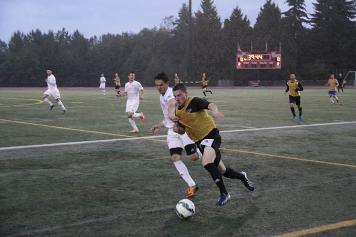 An association football match taking place at Terry Fox Field, Simon Fraser University.